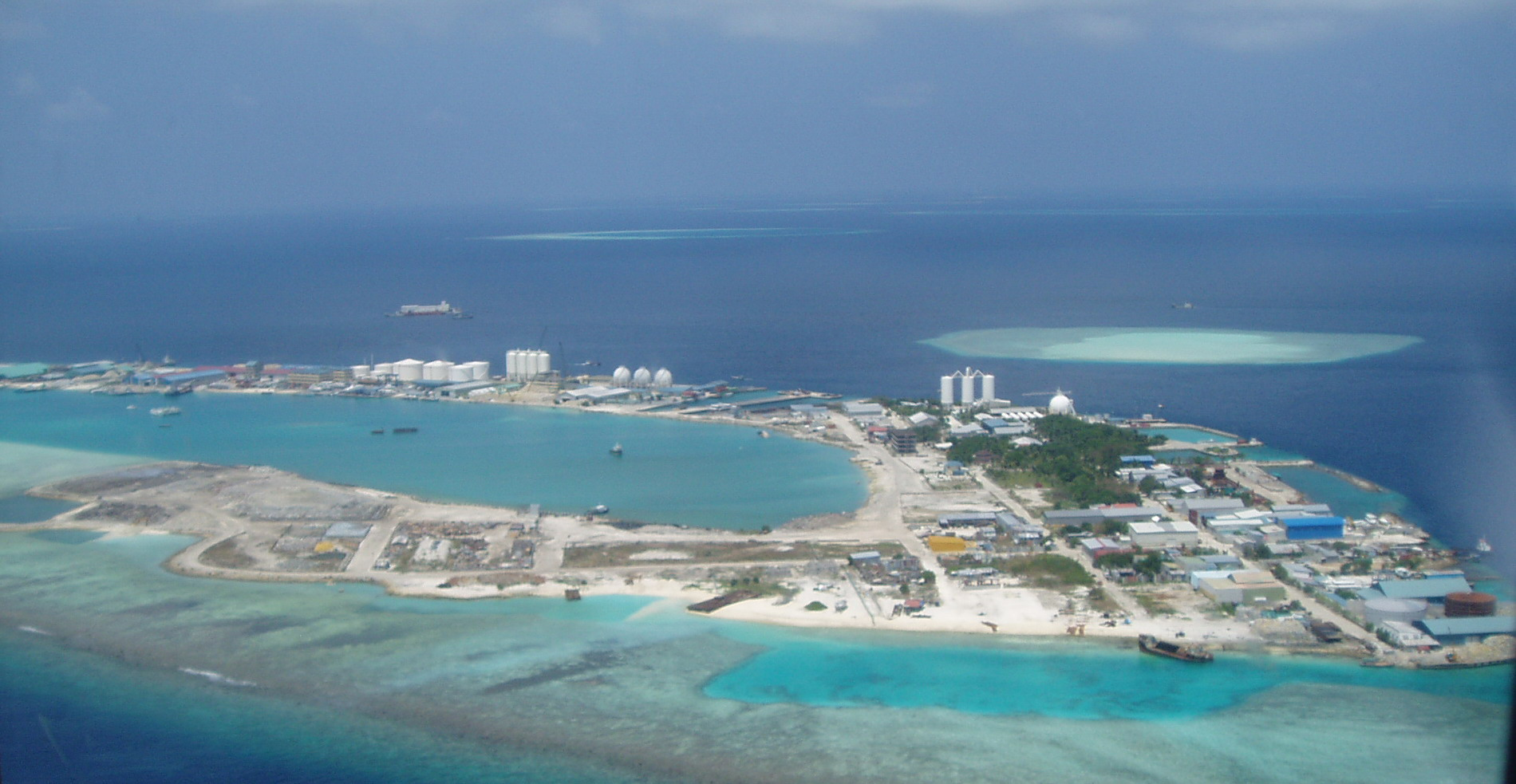 Aerial view of Thilafushi